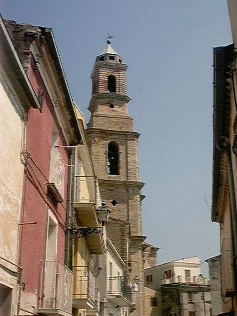 Mezzaterra (old town)